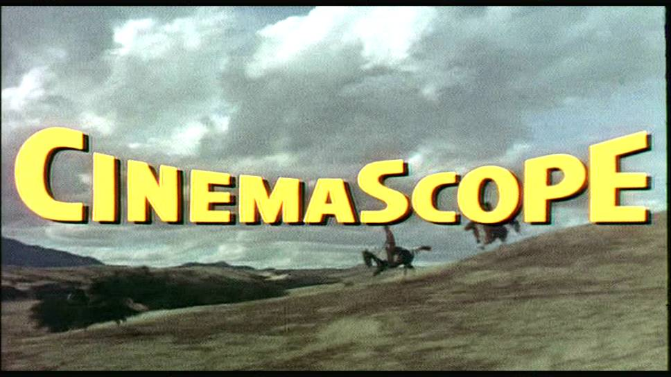 Screenshot from the trailer for the film Broken Lance.